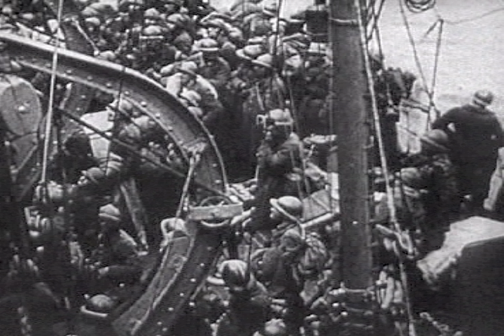 French troops escaping from Dunkirk in a British ship (France, 1940). Screenhot taken from the 1943 United States Army propaganda film Divide and Conquer (Why We Fight #3) directed by Frank Capra and partially based on, news archives, animations, restaged scenes and captured propaganda material from both sides.